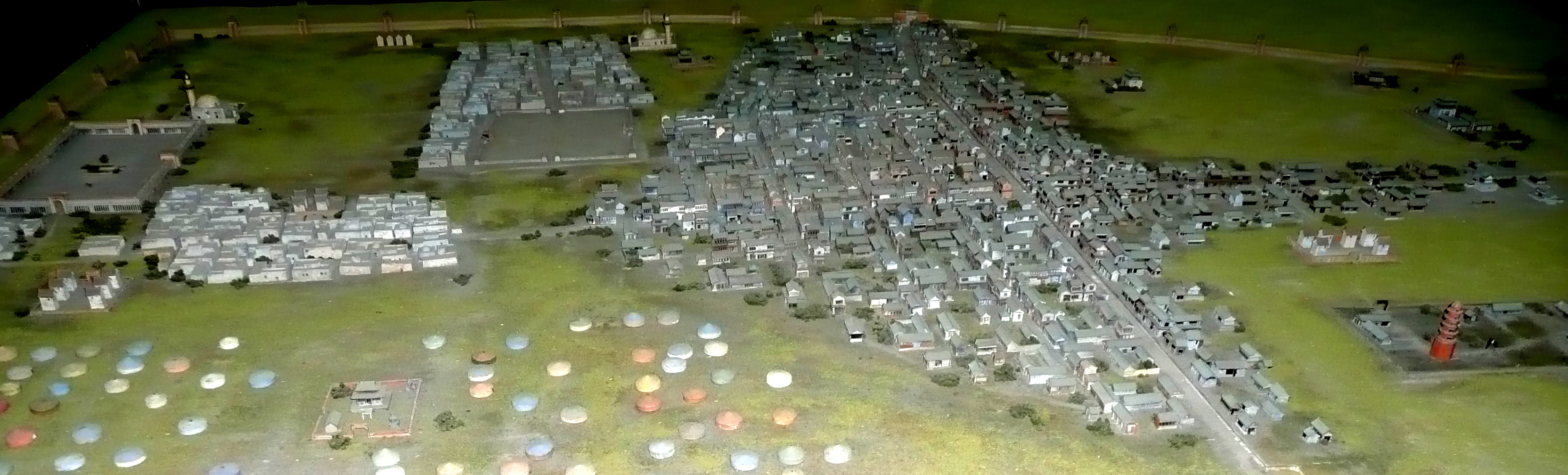 Model of the city Karakorum in the National Museum of Mongolian History in Ulan Bator